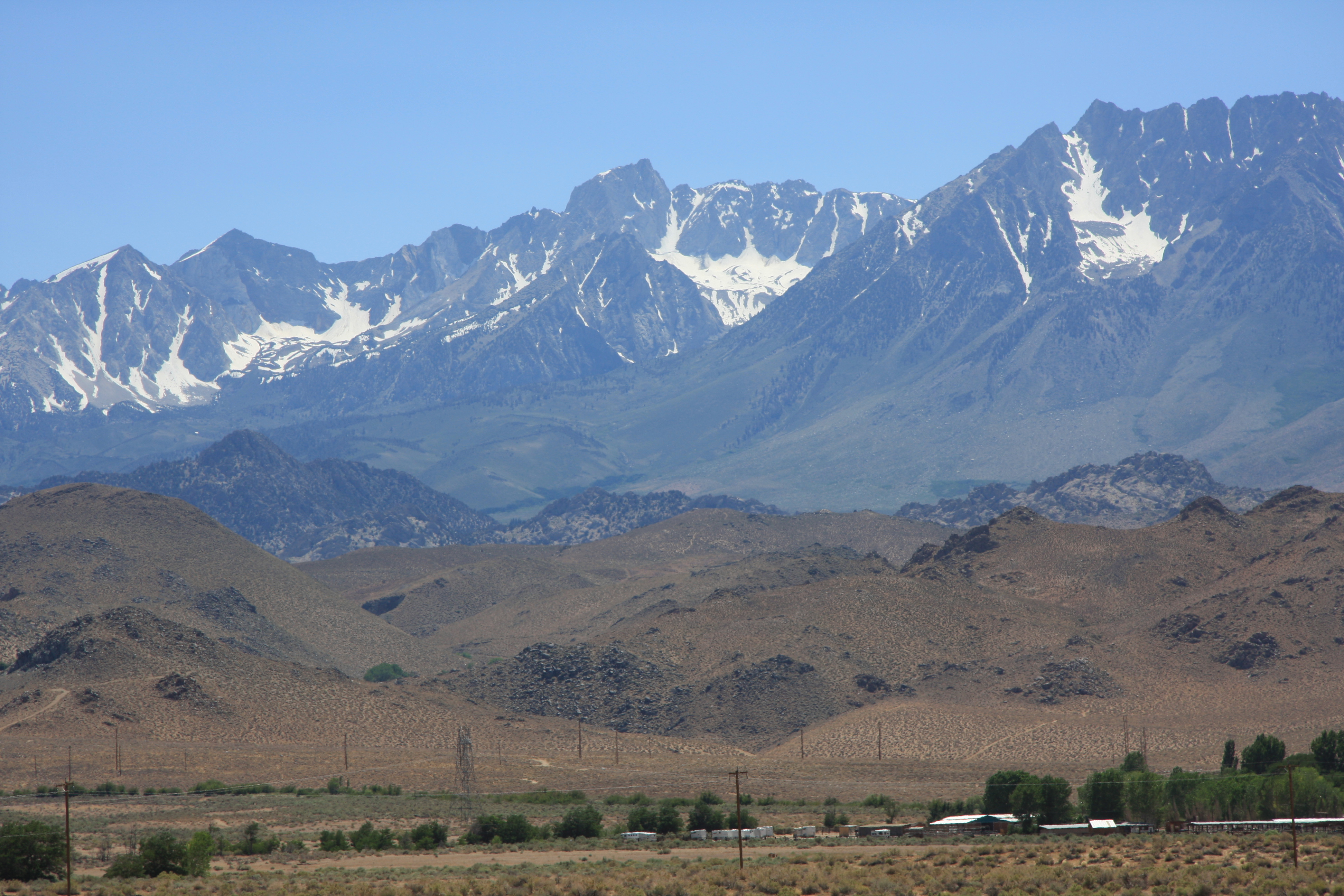 Mt. Humphries (center of skyline, slanted top) from Owens Valley west of Bishop CA, with the Tungsten Hills in front. Inyo County CA, looking into John Muir Wilderness.